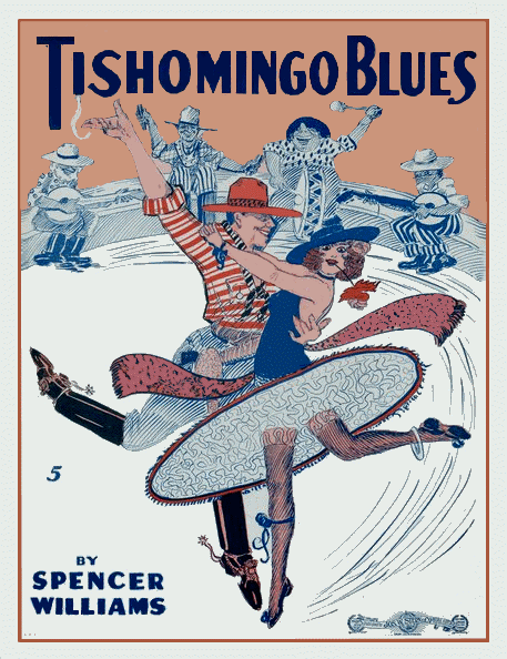 Cover of sheet music for "Tishomingo Blues" by Spencer Williams, 1917